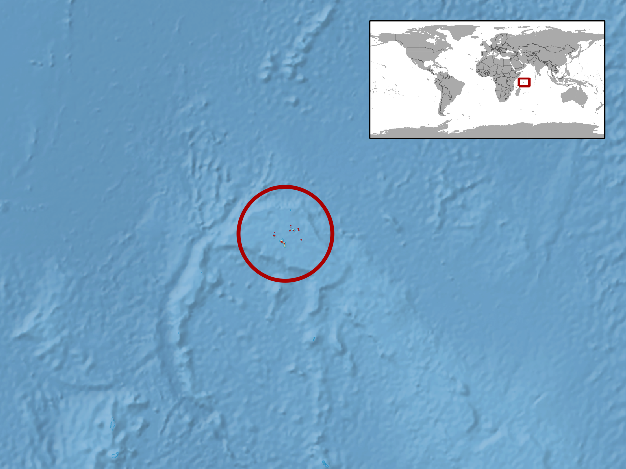 geographic distribution of Urocotyledon inexpectata (Native: Seychelles)